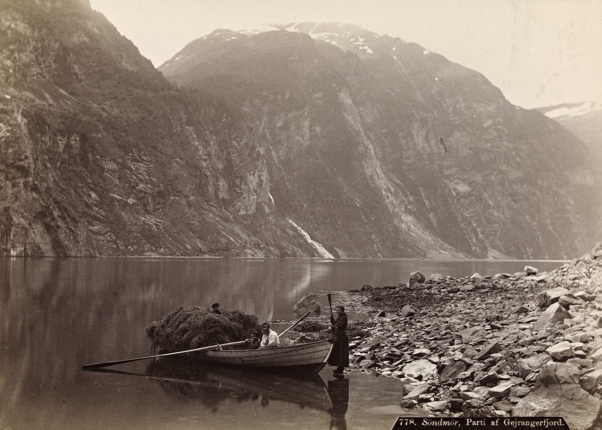 Tittel / Title: 778. Söndmör, Parti af Gejrangerfjord Dato / Date: 1880-1890 Fotograf / Photographer: Axel Lindahl (1841-1906) Sted / Place: Møre og Romsdal, Geirangerfjorden Eier / Owner Institution: Nasjonalbiblioteket / National Library of Norway Lenke / Link: Bildesignatur / Image Number: bldsa_AL0778